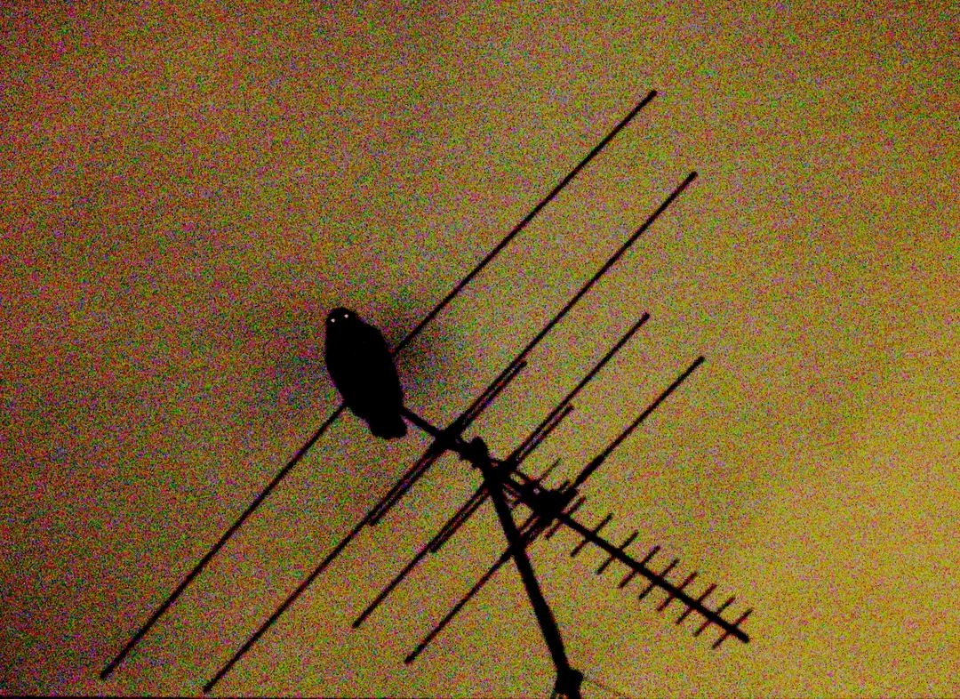 A Powerful Owl perching on a suburban television aerial in Chatswood West, New South Wales, Australia. Species identified by the photographer by the owls huge size and its call. Photograph taken using flash photography and a tripod at about 23.20 pm at night.